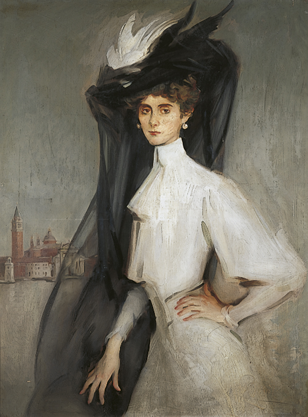 Ranken, William Bruce Ellis; Olga Alberta (1871-1930), Baroness de Meyer; Leeds Museums and Galleries